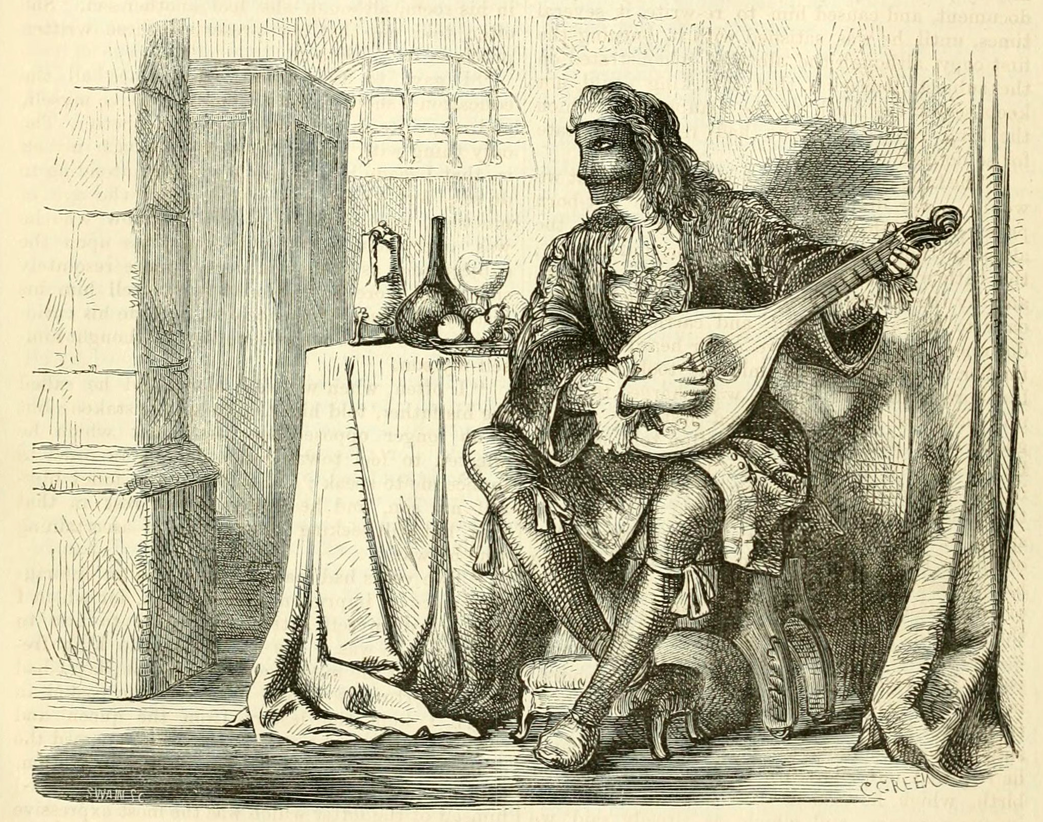 Illustration for a magazine article about "The Man in the Iron Mask." Once a Week magazine, volume 3, page 246.